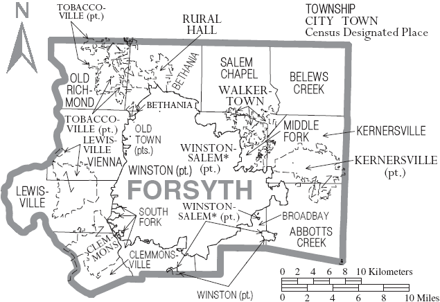 Map of Forsyth County, North Carolina, United States with township and municipal boundaries